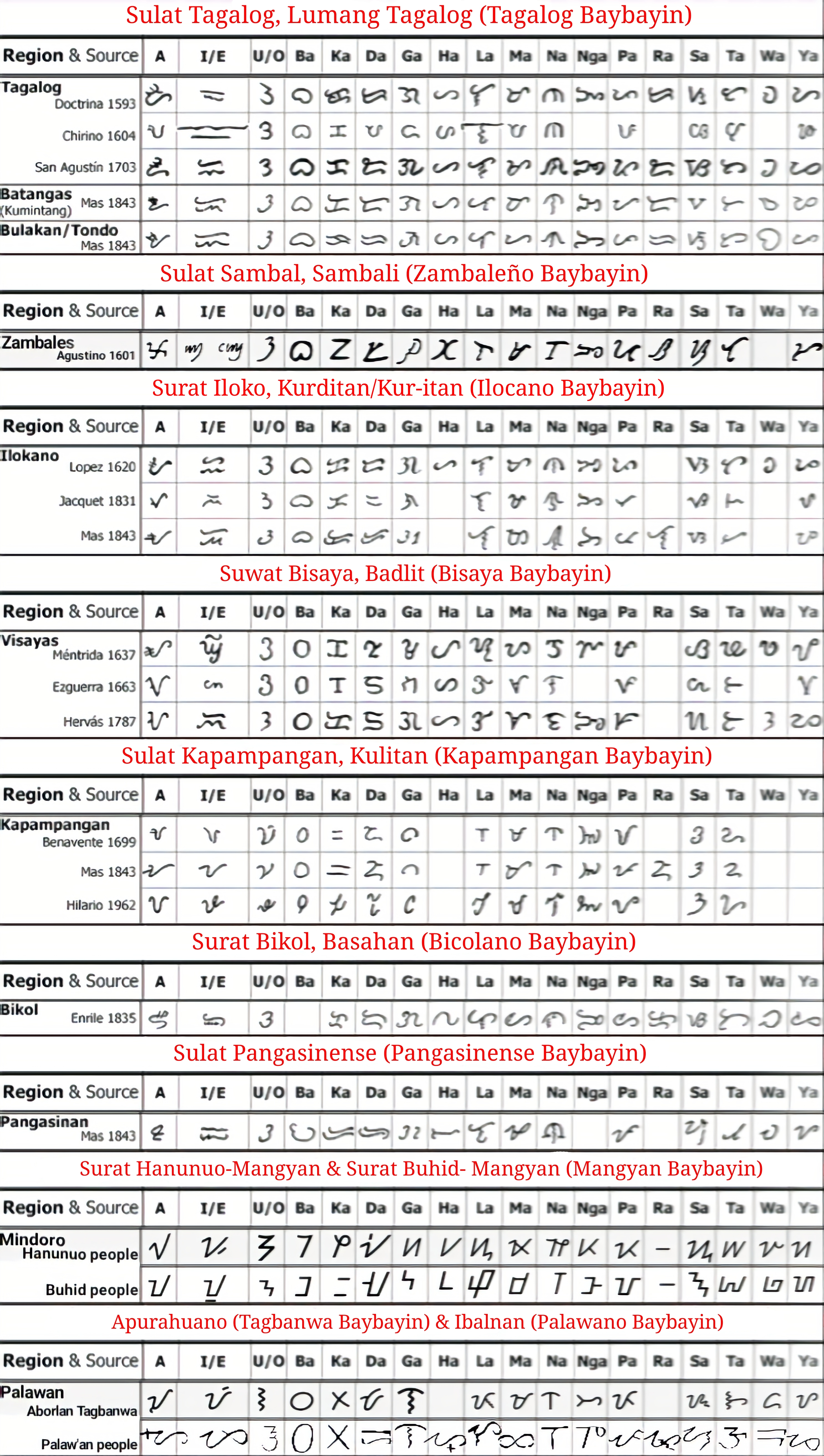 Abugida in the Philippines, also known as Baybayin internationally is varian of scripts from the Luzon and Visayas, Philippines.